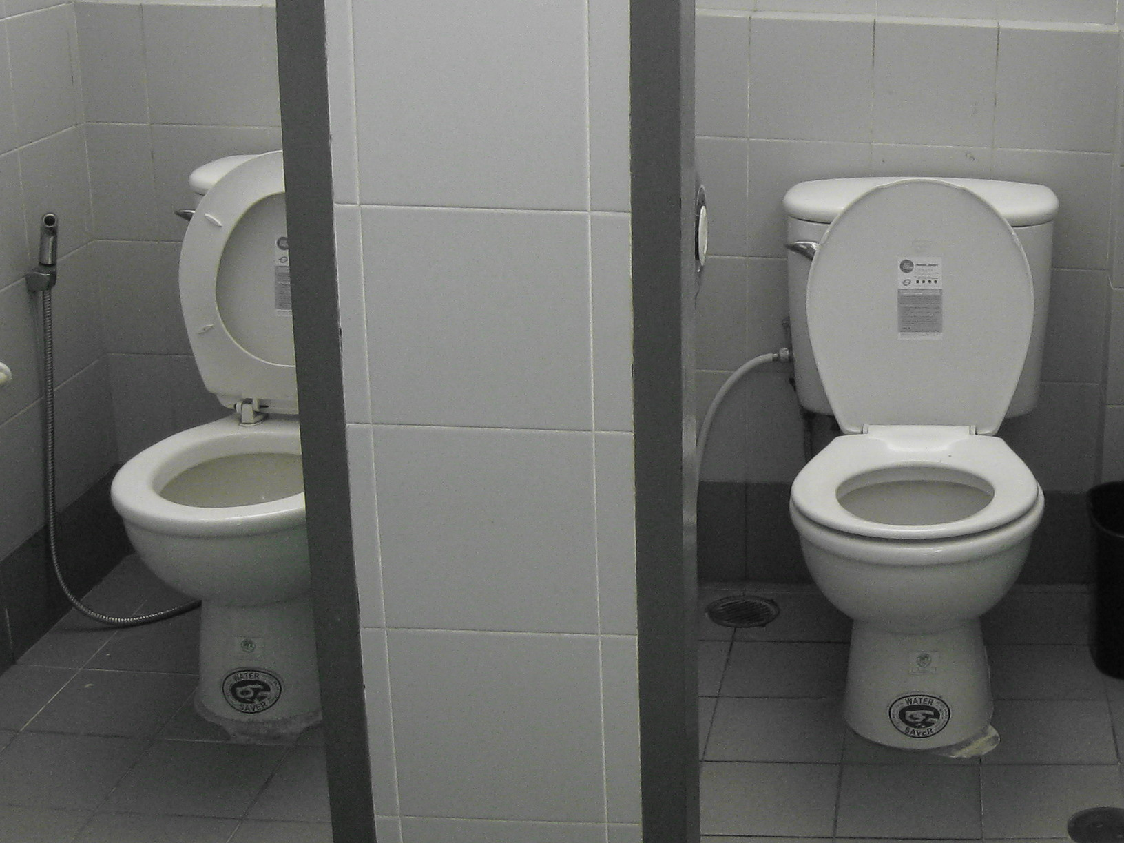 Toilets in Thailand